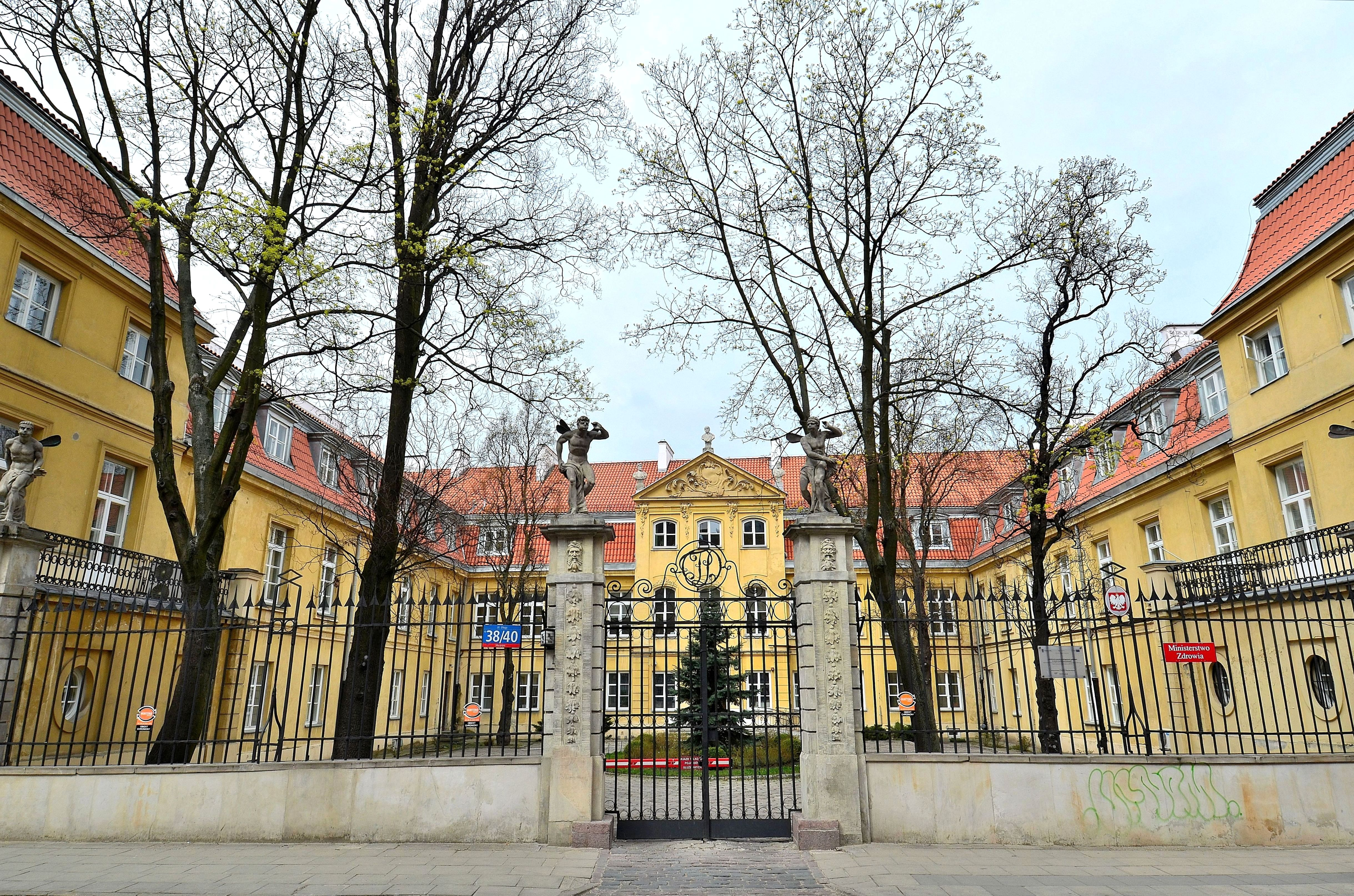 Four Winds Palace in Warsaw, at 40 Długa street.